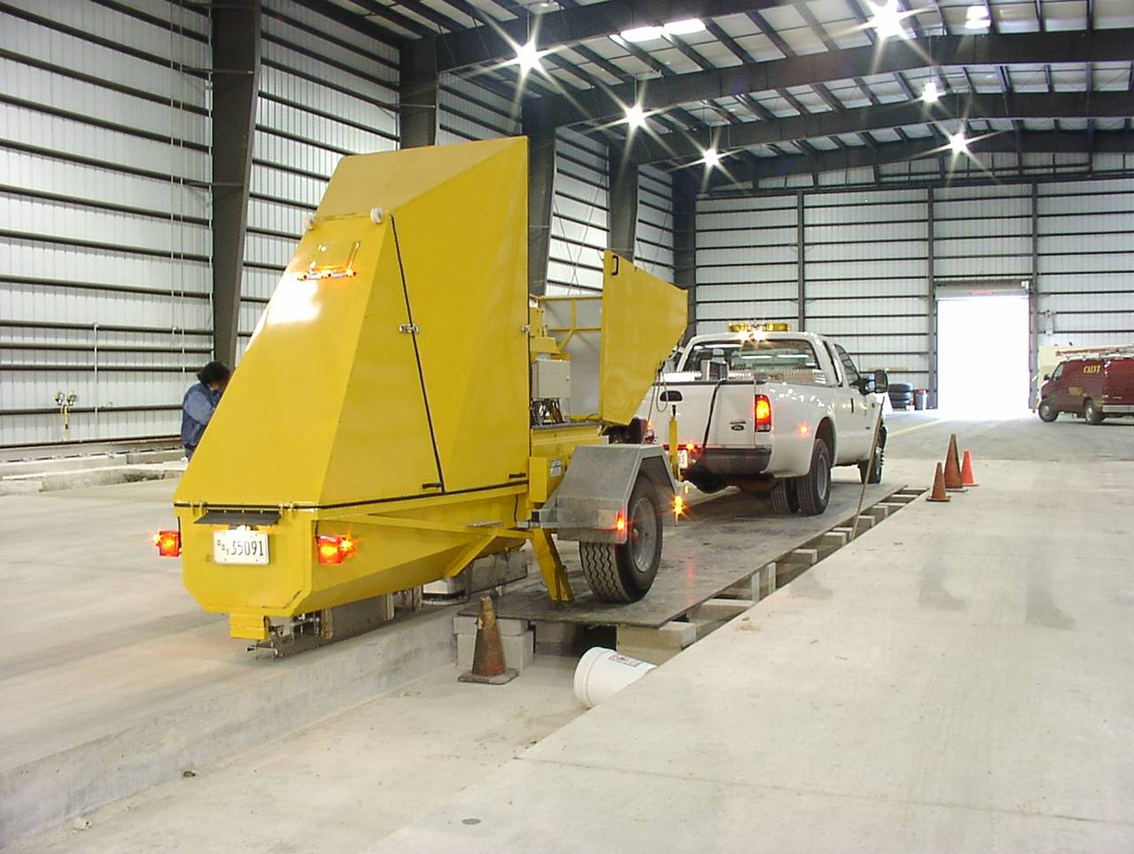 No caption associated with the photo on the FAA website. Page title is "Falling Weight Deflectometer Testing/Evaluation", and the page discusses FWDs.